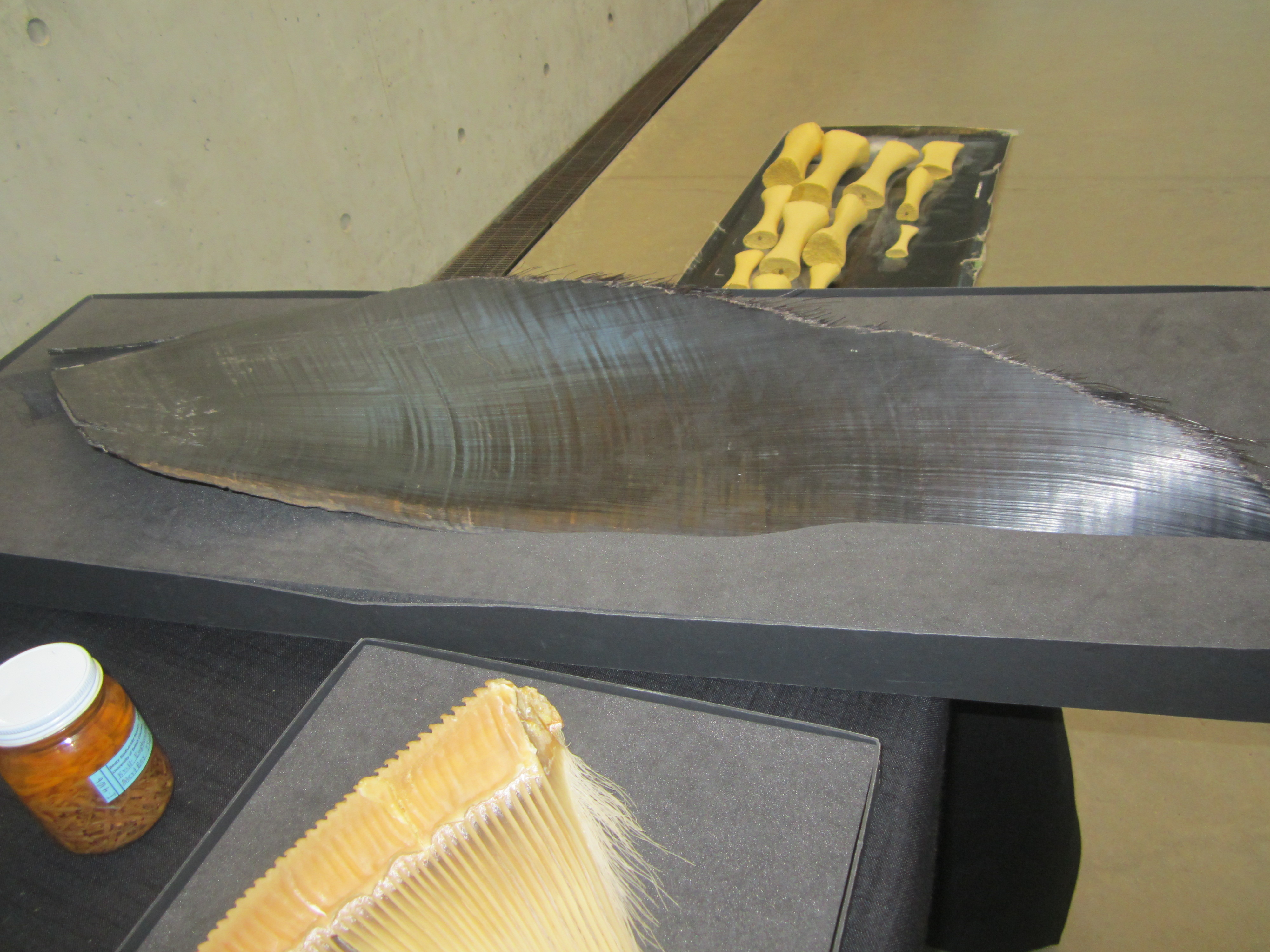 Blue whale baleen plate at the Beaty Biodiversity Museum in Vancouver, British Columbia